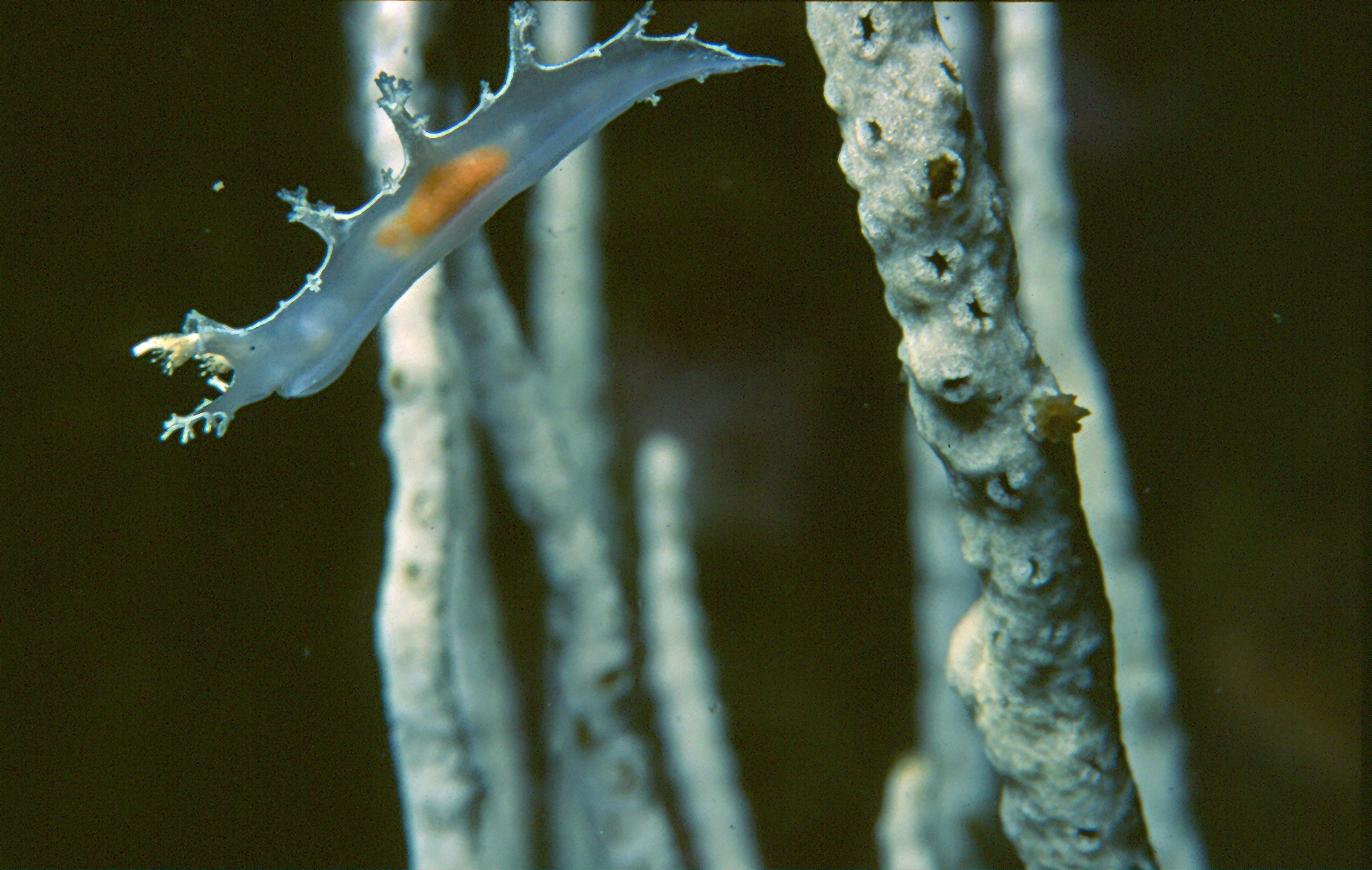 Marionia blainvillea (Risso, 1818) - juvenile : 12 mm - Banyuls-sur-Mer : 07/96